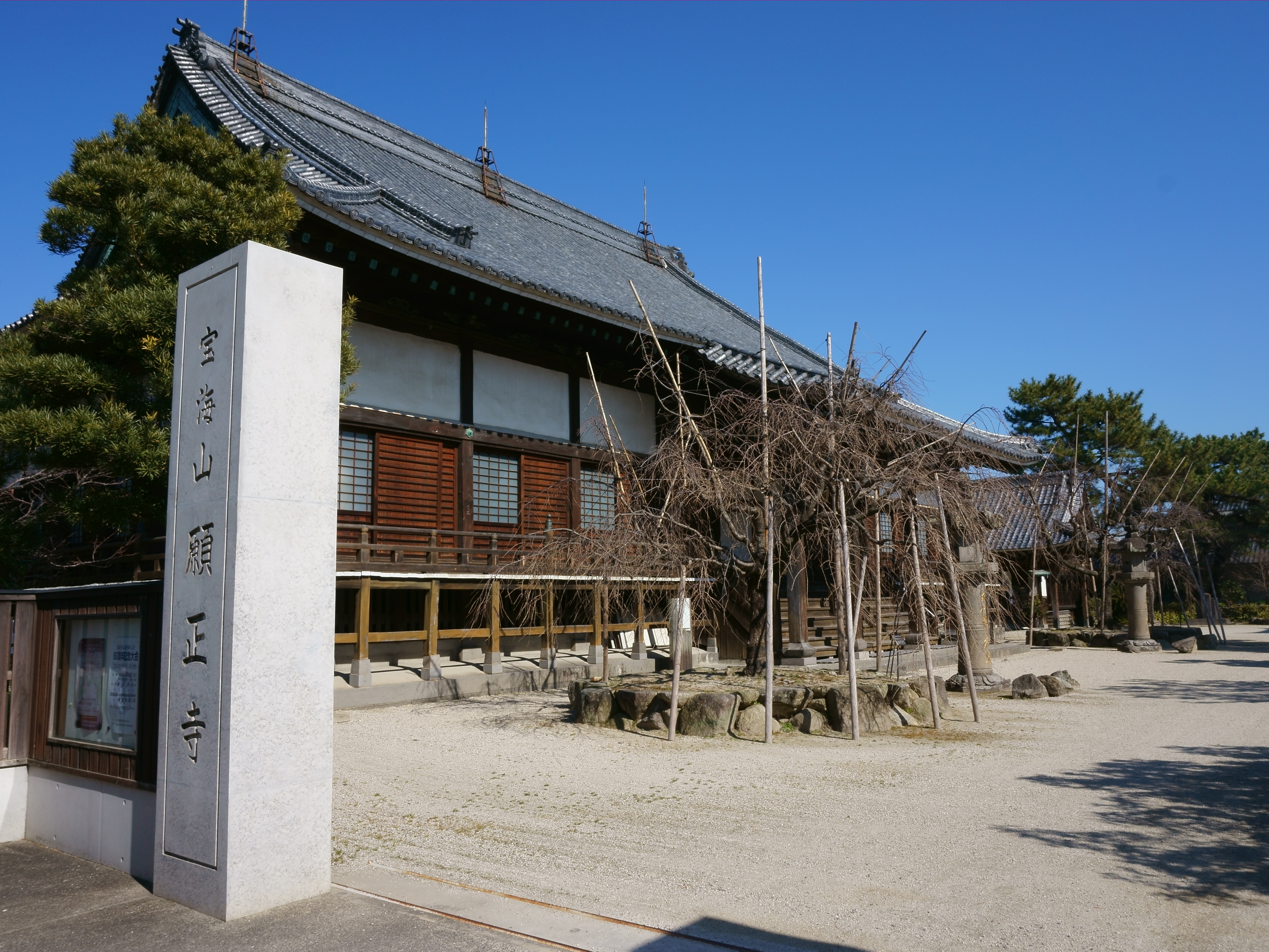 Ganshō-ji Temple, in Gofukumotomachi, Saga city.